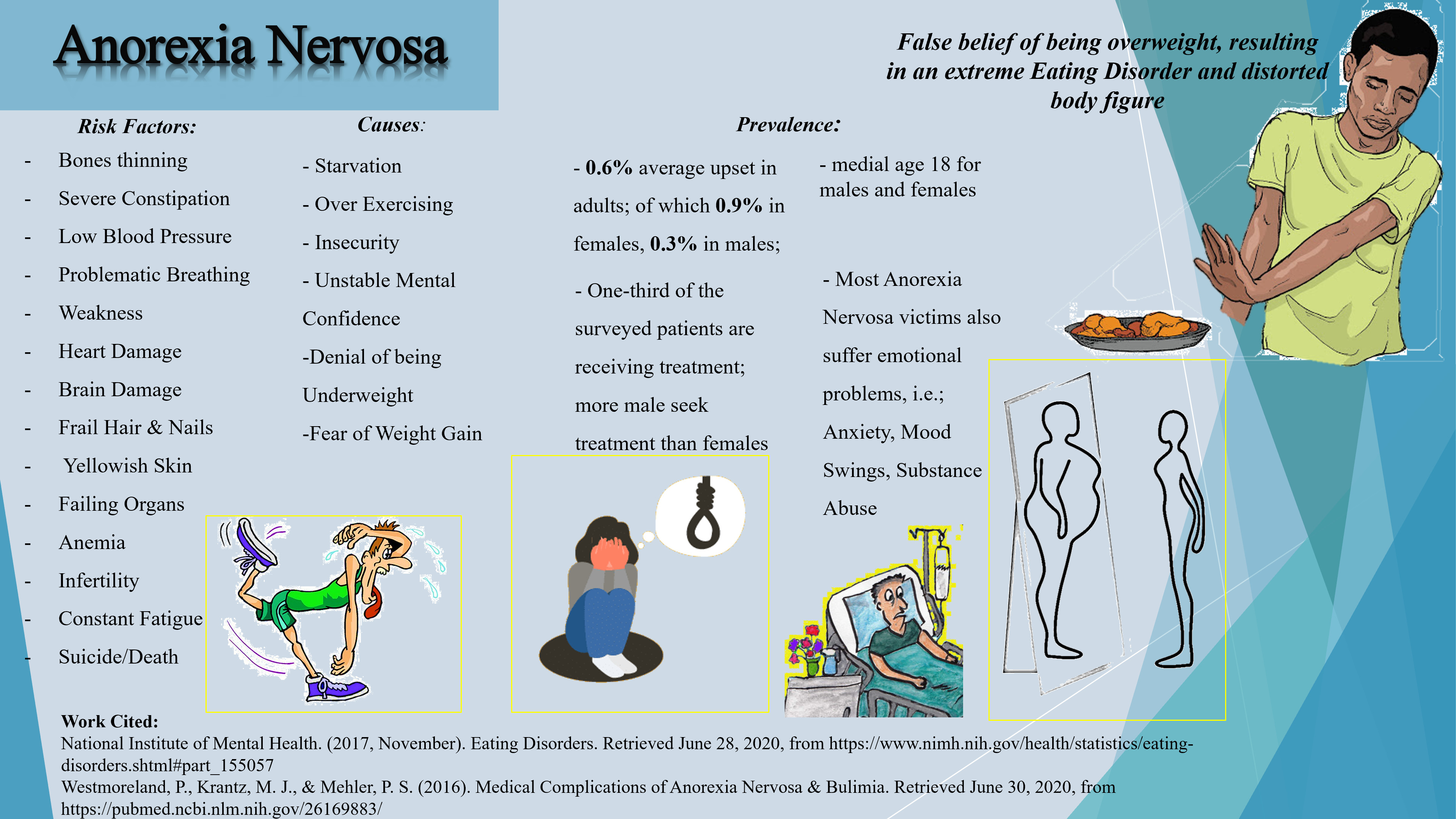 Definition, Risk, Causes, Prevalence of Anorexia Nerovsa